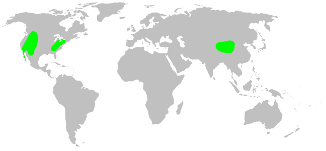 Hypochilidae habitat distribution, drawn after Platnick: World Spider Catalog 7.0. This is not a precise rendering of the distribution! If you have better information, please replace this map, or send me the info, so i will redraw it.